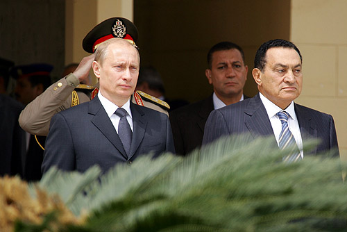 CAIRO. During the official meeting ceremony with Egyptian President Hosni Mubarak.